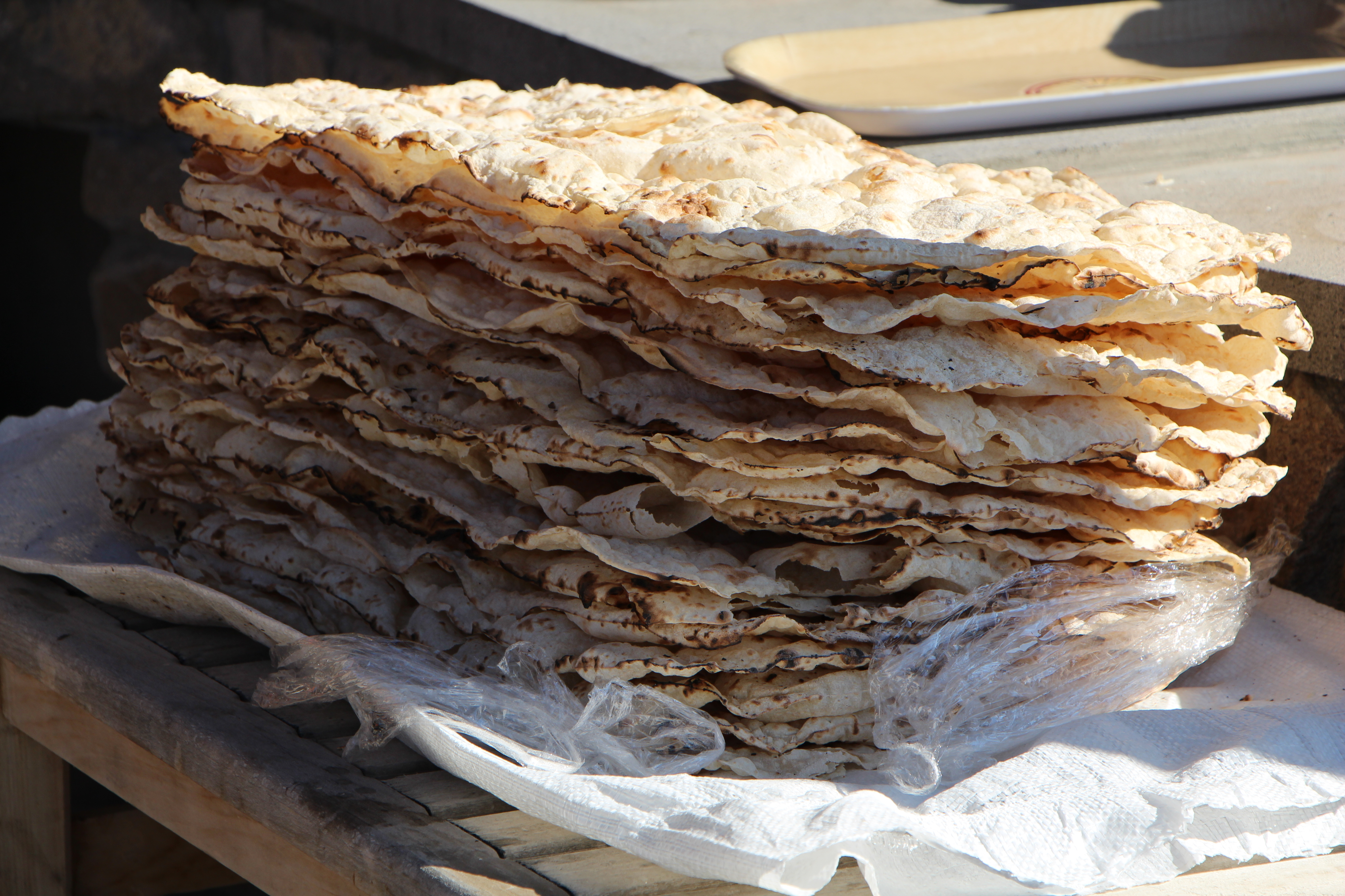 Armenian Lavash.